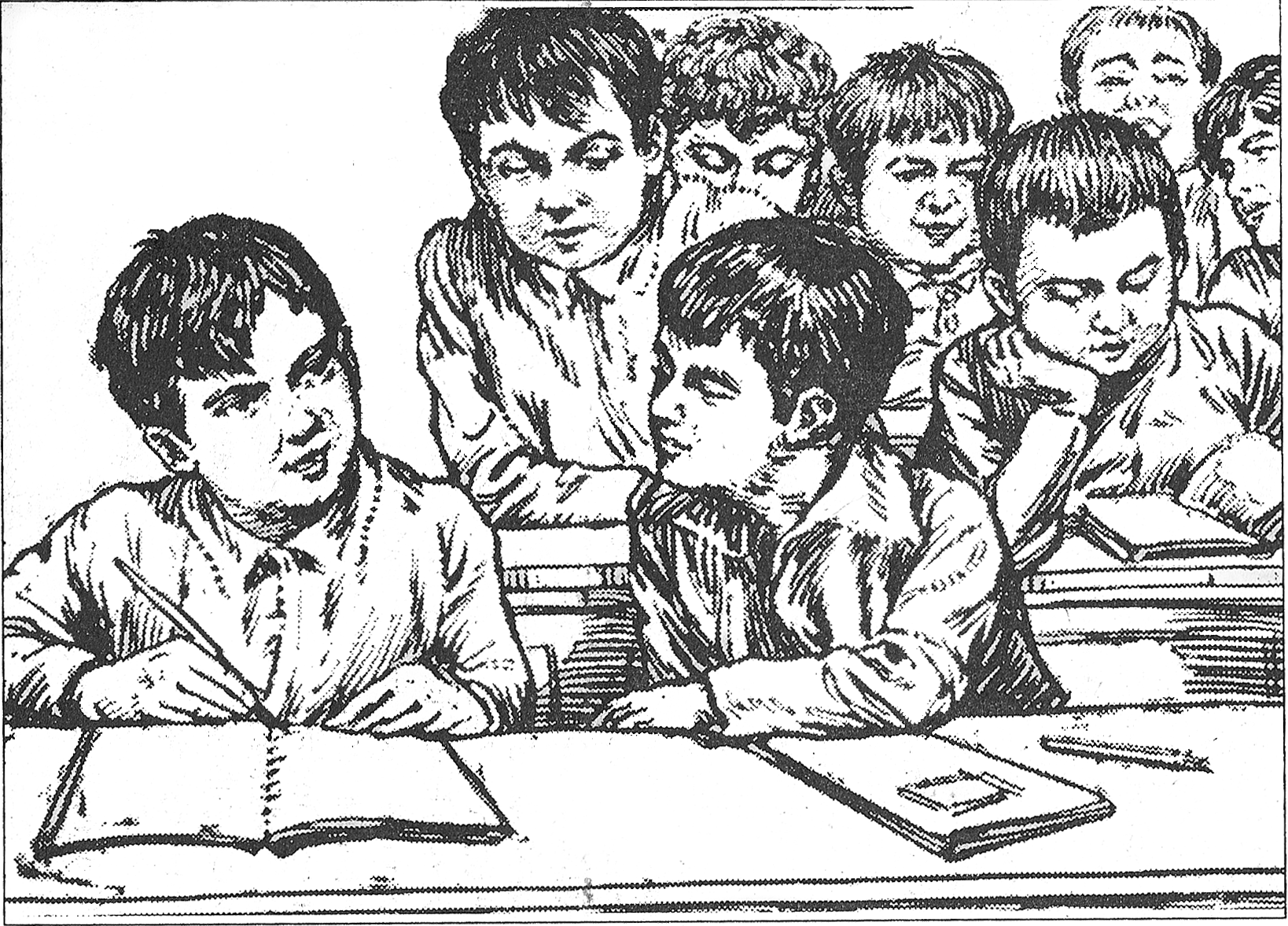 The 2nd illustration from the Italian novel Heart by Edmondo de Amicis; it appears in the October chapter, on Tuesday, 23.